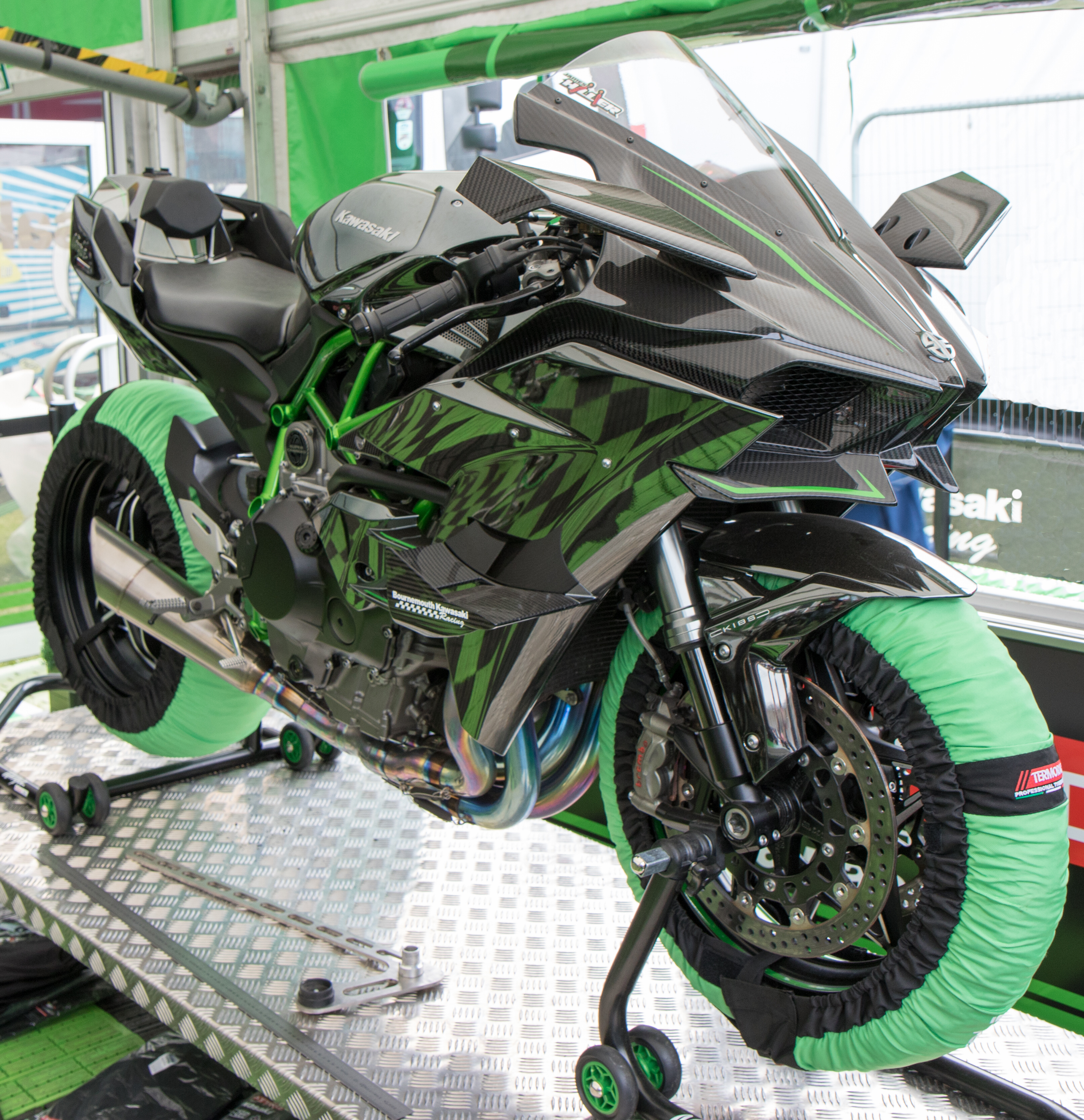 James Hillier's Kawasaki H2R (by Quattro Plant/Bournemouth Kawasaki) at TT Grandstand paddock during TT week in 2015